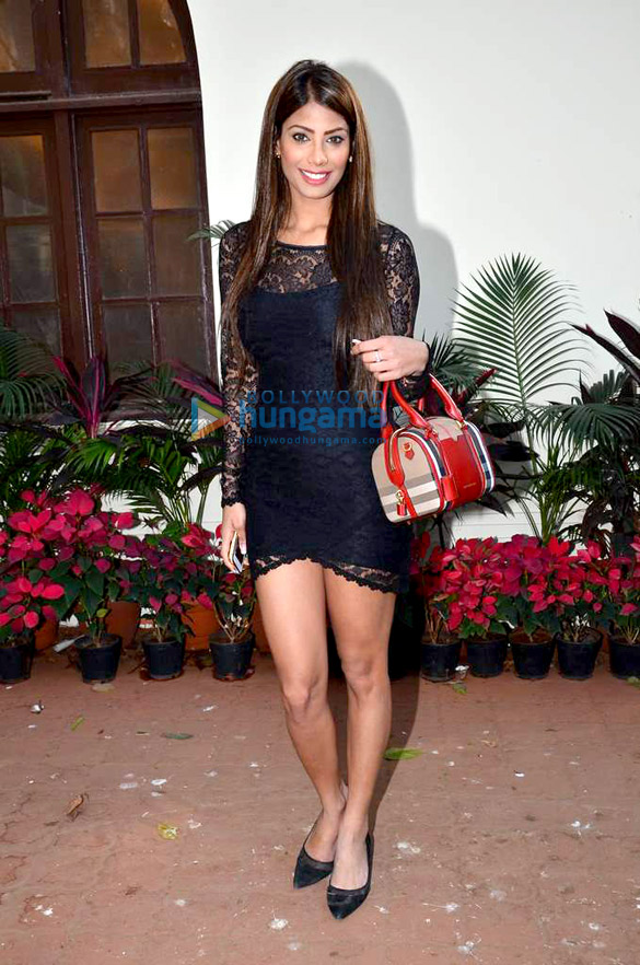 Nicole Faria at Derby race during the promotions of the film Yaariyan